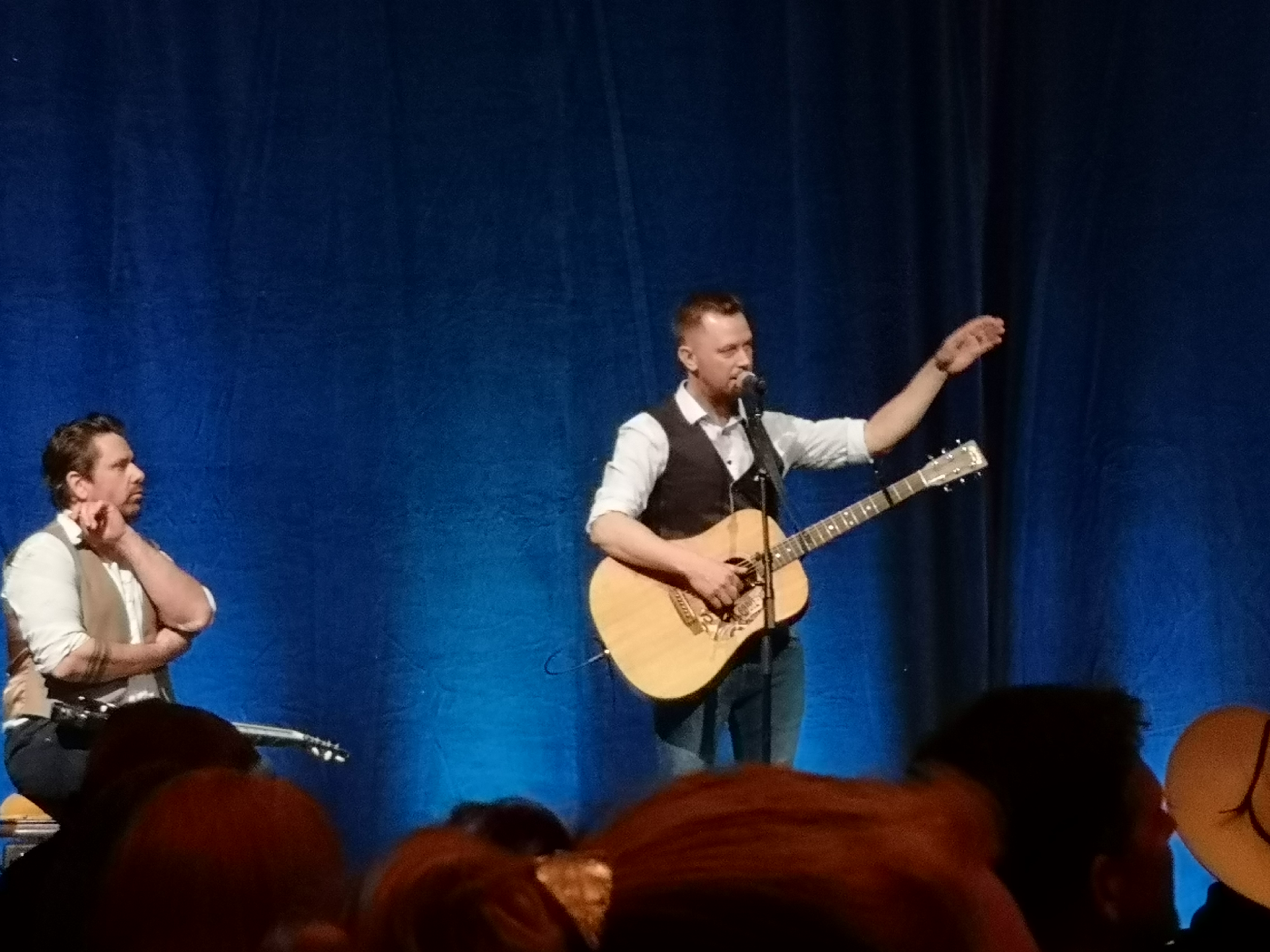 Cody Prevost at 2019 SCMA